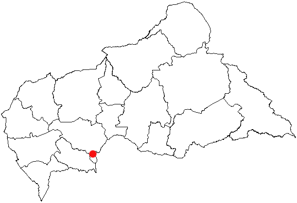 Bimbo, Central African Republic Location Map; created with the GIMP. Made by User:Acntx.